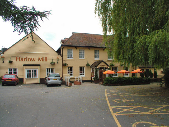 Harlow Mill Restaurant. This Beefeater Restaurant is alongside the River Stort, on the outskirts of Harlow.